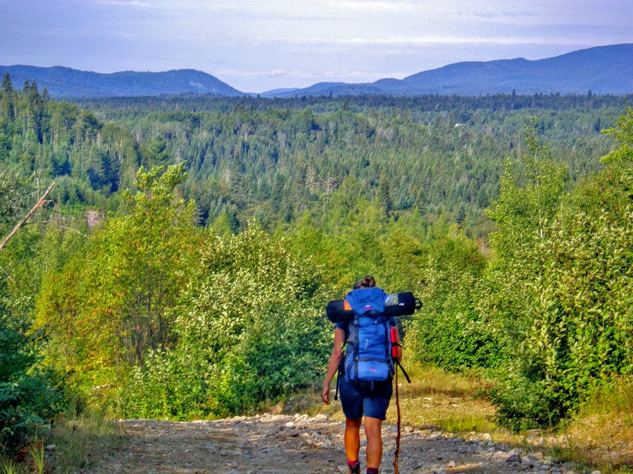 Hiker in the Forêt-Ouareau regional park, near Sentier National trail.